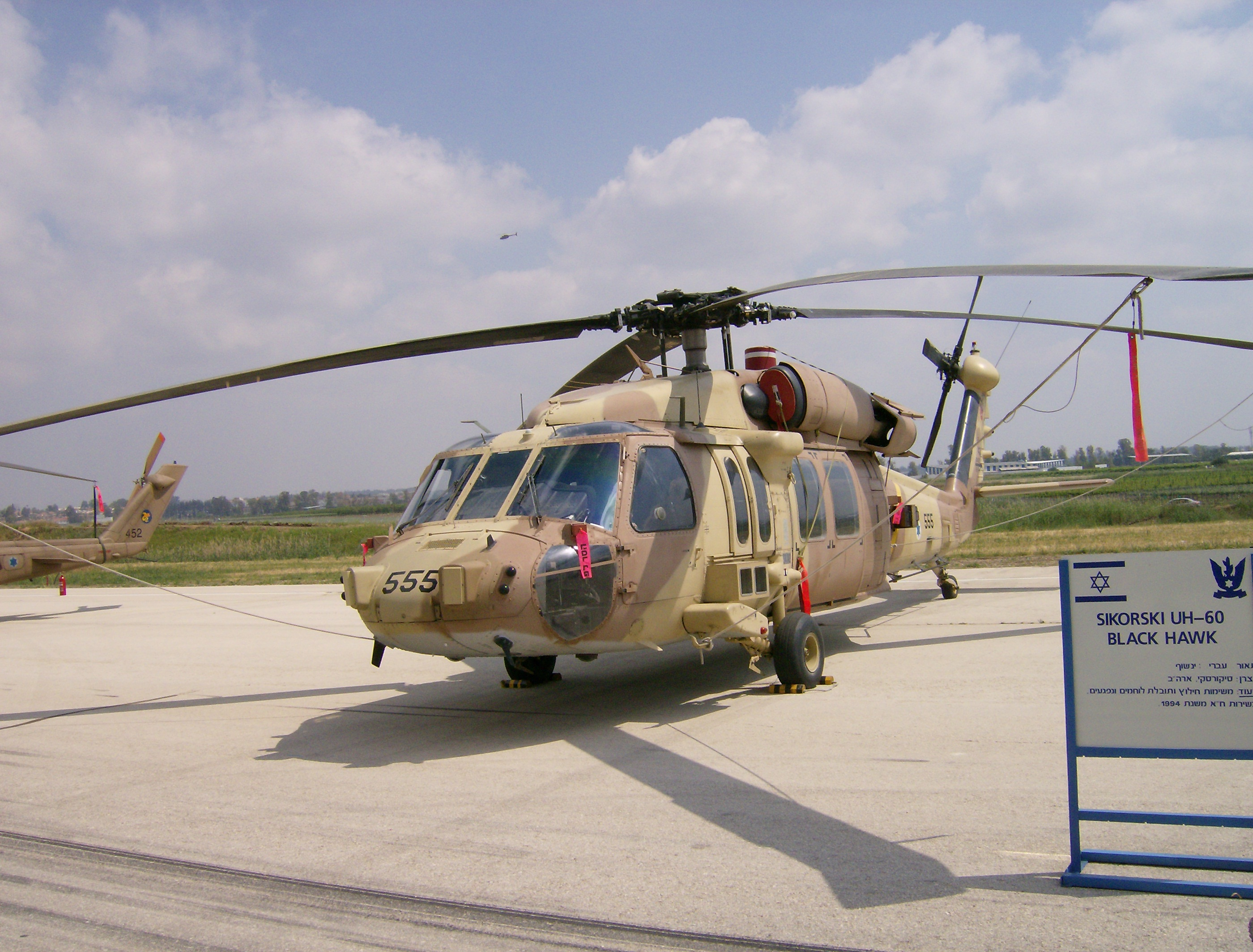 Black hawk, Tel Nof, Israel